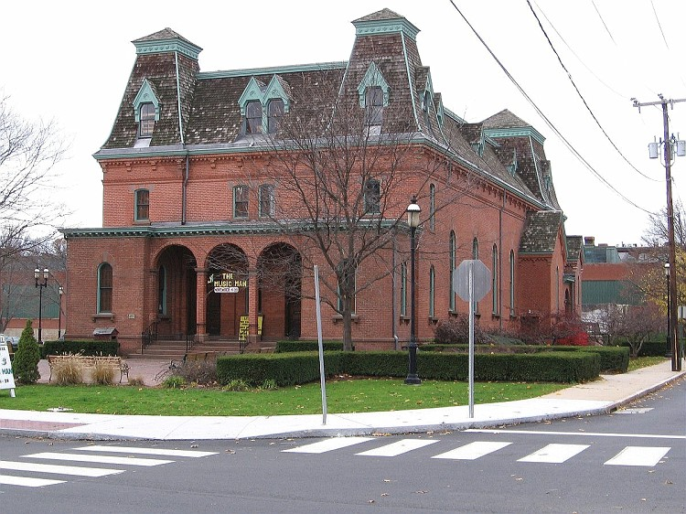 Cheney Hall, Manchester, Connecticut. Part of the Cheney Brothers Historic District.